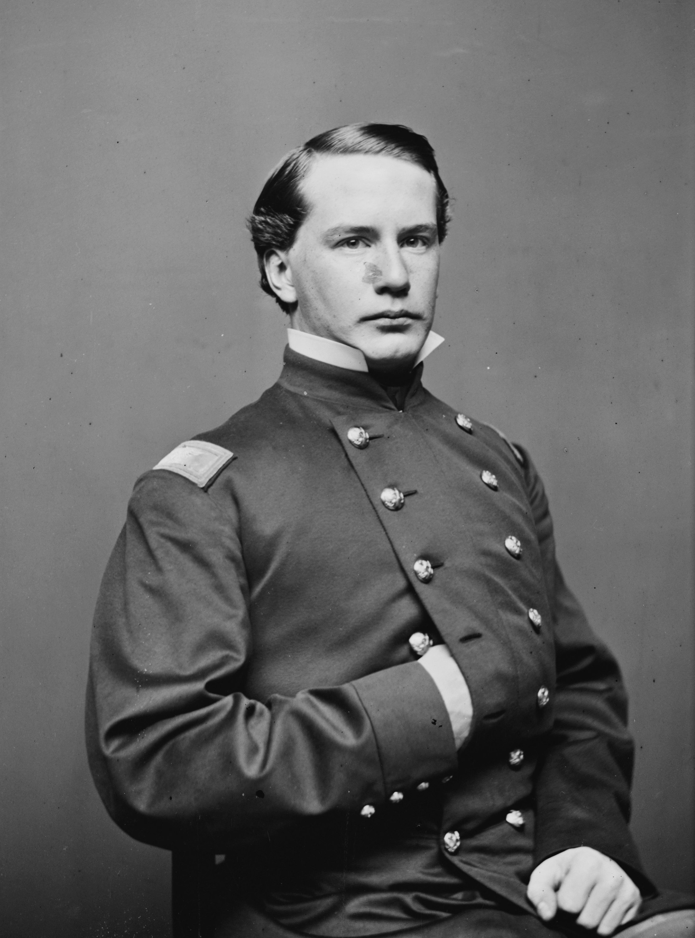 Title: Col. E.L. Price, 145th N.Y. Inf. Physical description: 1 negative